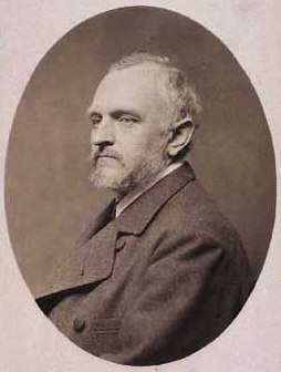 Andreas Fritz (1828-1906), Danish painter